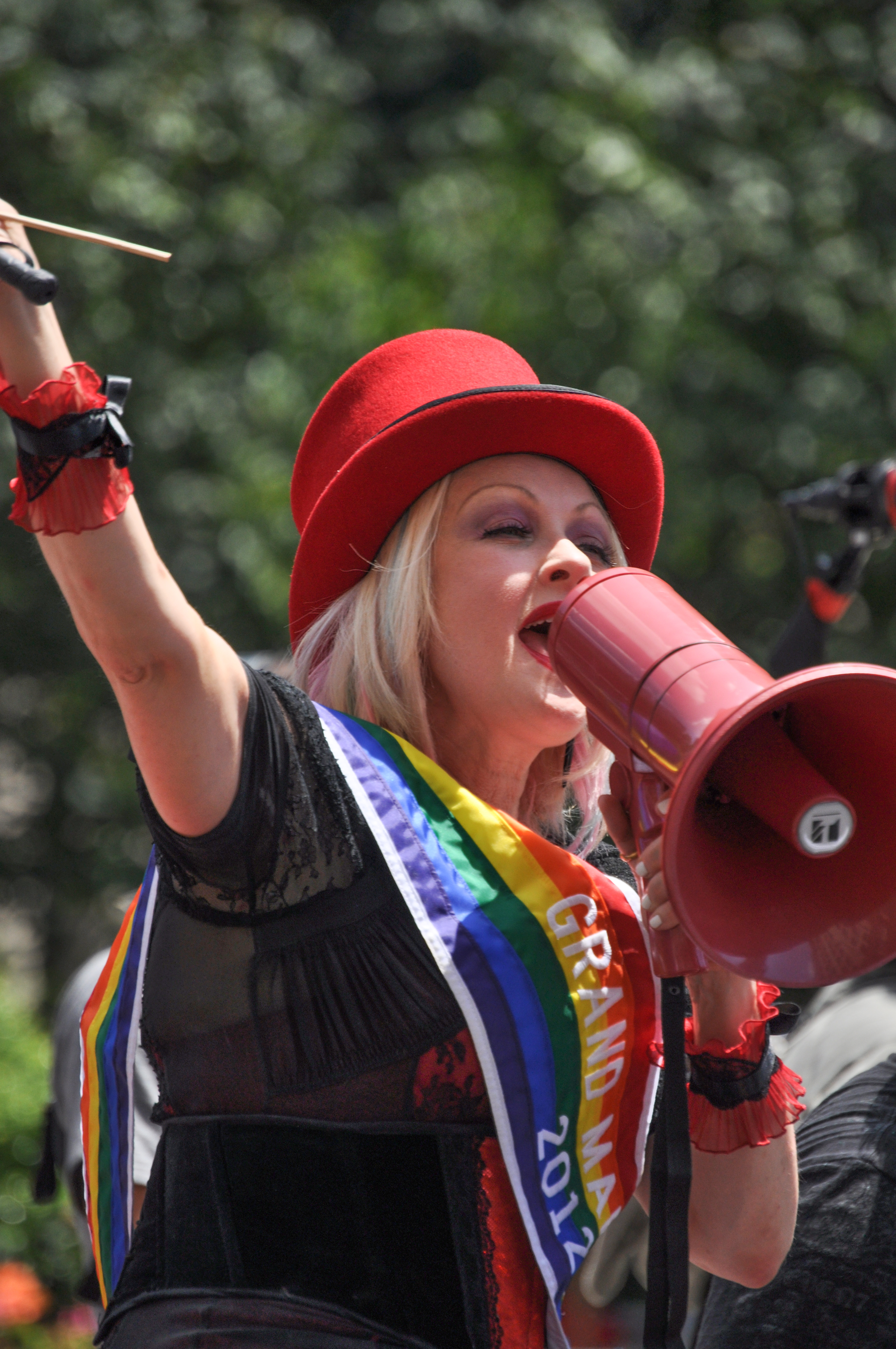 Cyndi Lauper, as grand marshal, leads the 2012 NYC Pride Parade on Sunday, June 24.Location: New York, N.Y., U.S.A.Event type: Pride ParadeDate or year: June 24, 2012